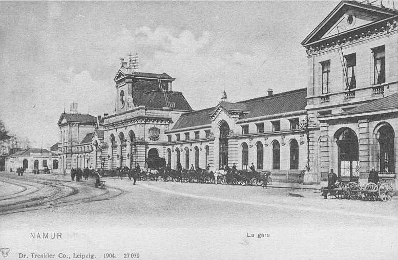 Post card of Namur railway station in 1904